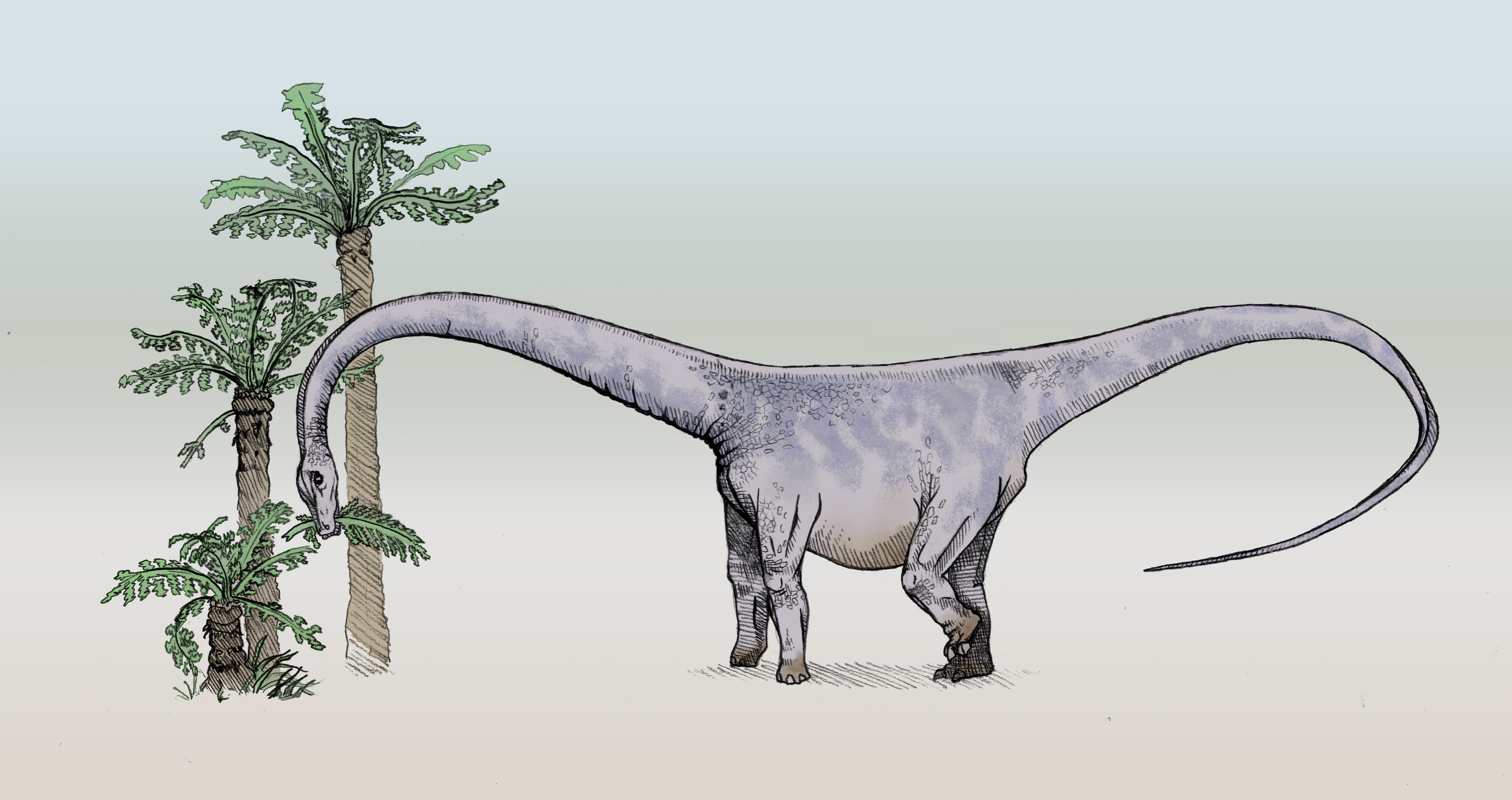 version 2 of barosaurus, by me user debivort 12.06